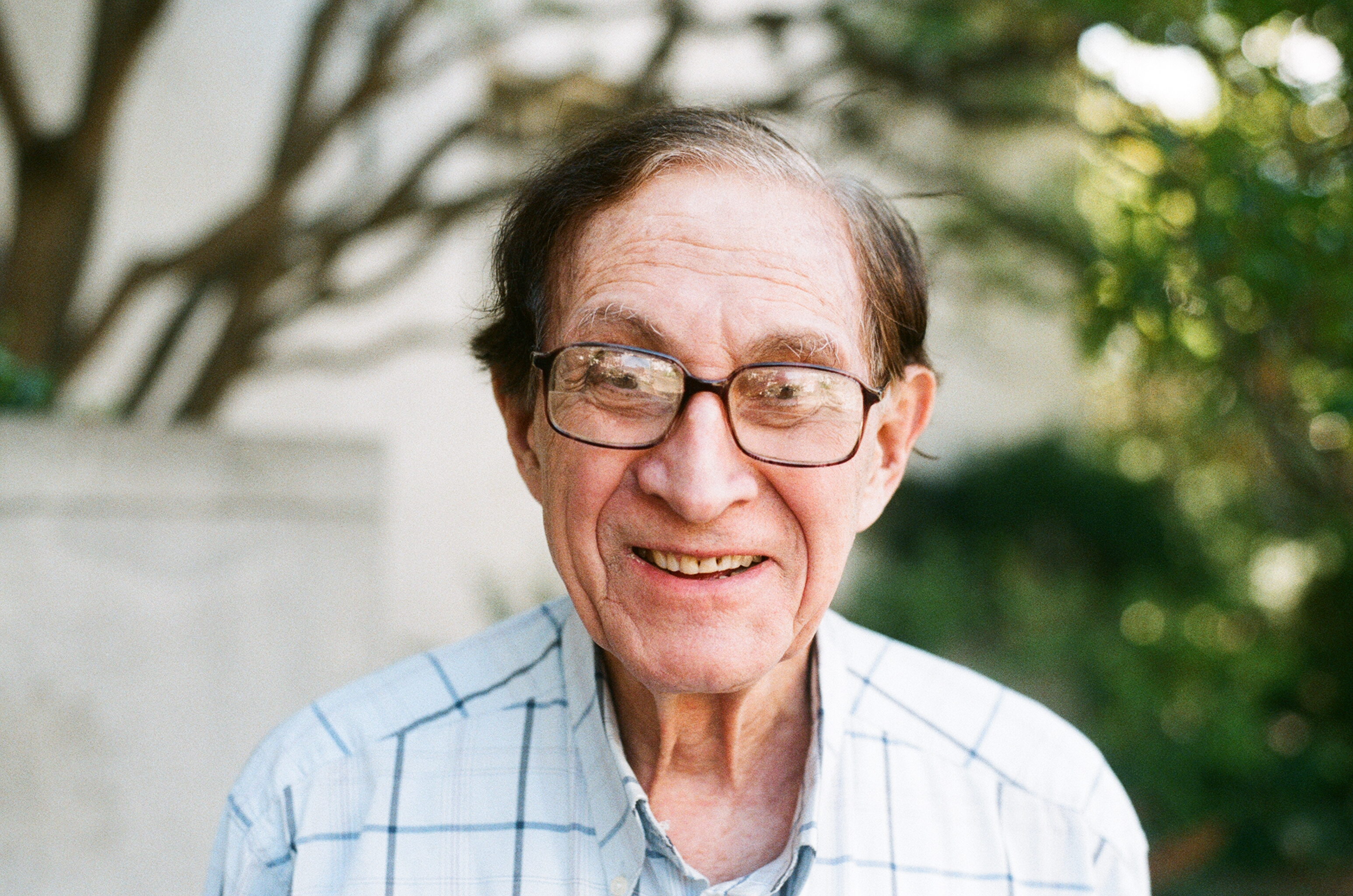 American mathematician Earl Taft at Berkeley, California in early 2010s